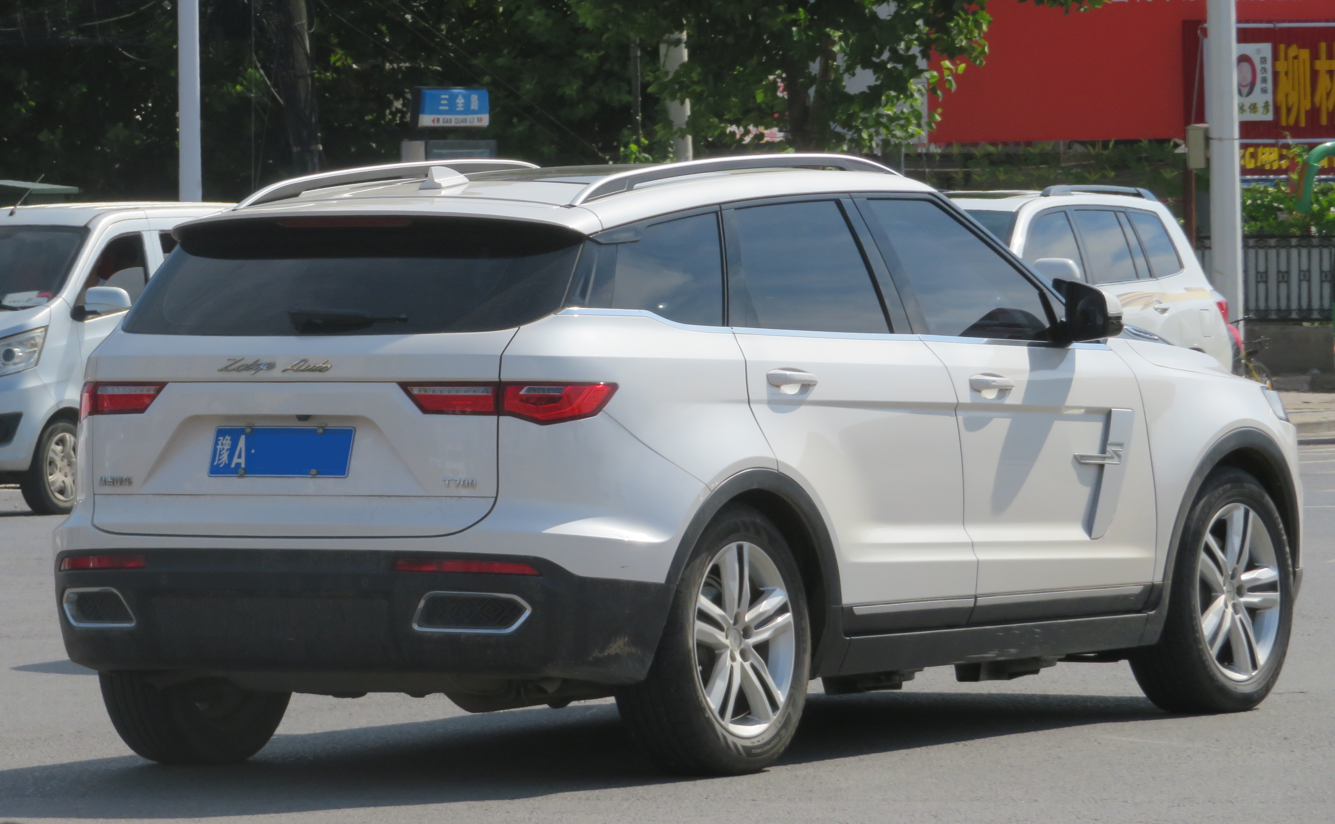 Photographed in Zhengzhou, Henan province, China